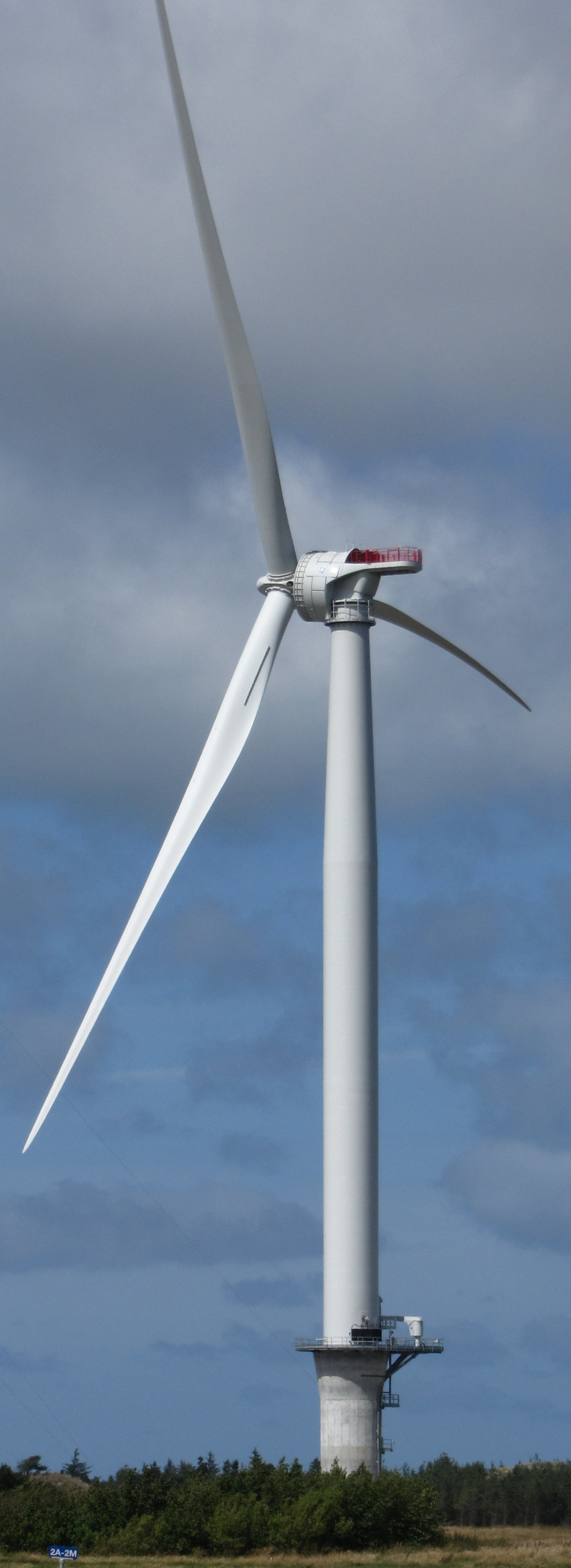 wind turbine at